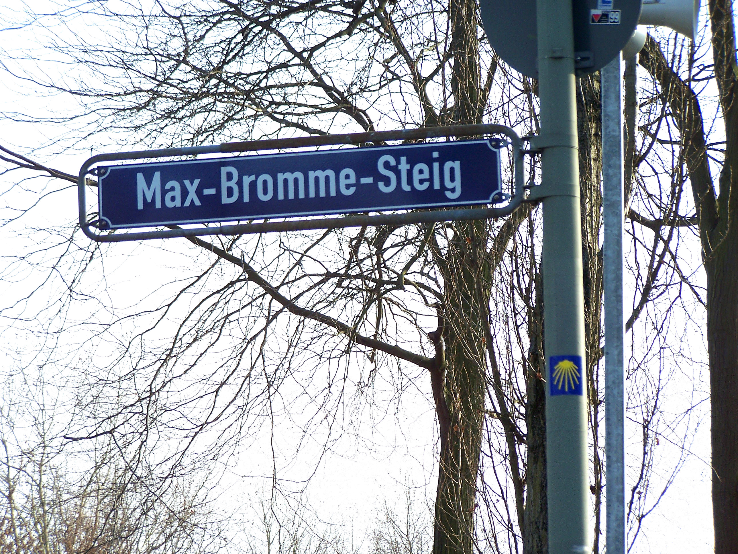 Street sign at the Max-Bromme-Steig above the symbol of Shell of Saint James at the crossing Way of St. James beneath the Bornheimer Hang in Frankfurt am Main-Bornheim, March 2011